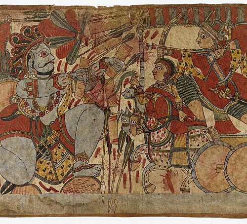 Gatotkaca figure (left) and Abhimanyu (shooting) in a traditional painting of Maharashtra, made ​​around the 19th century.